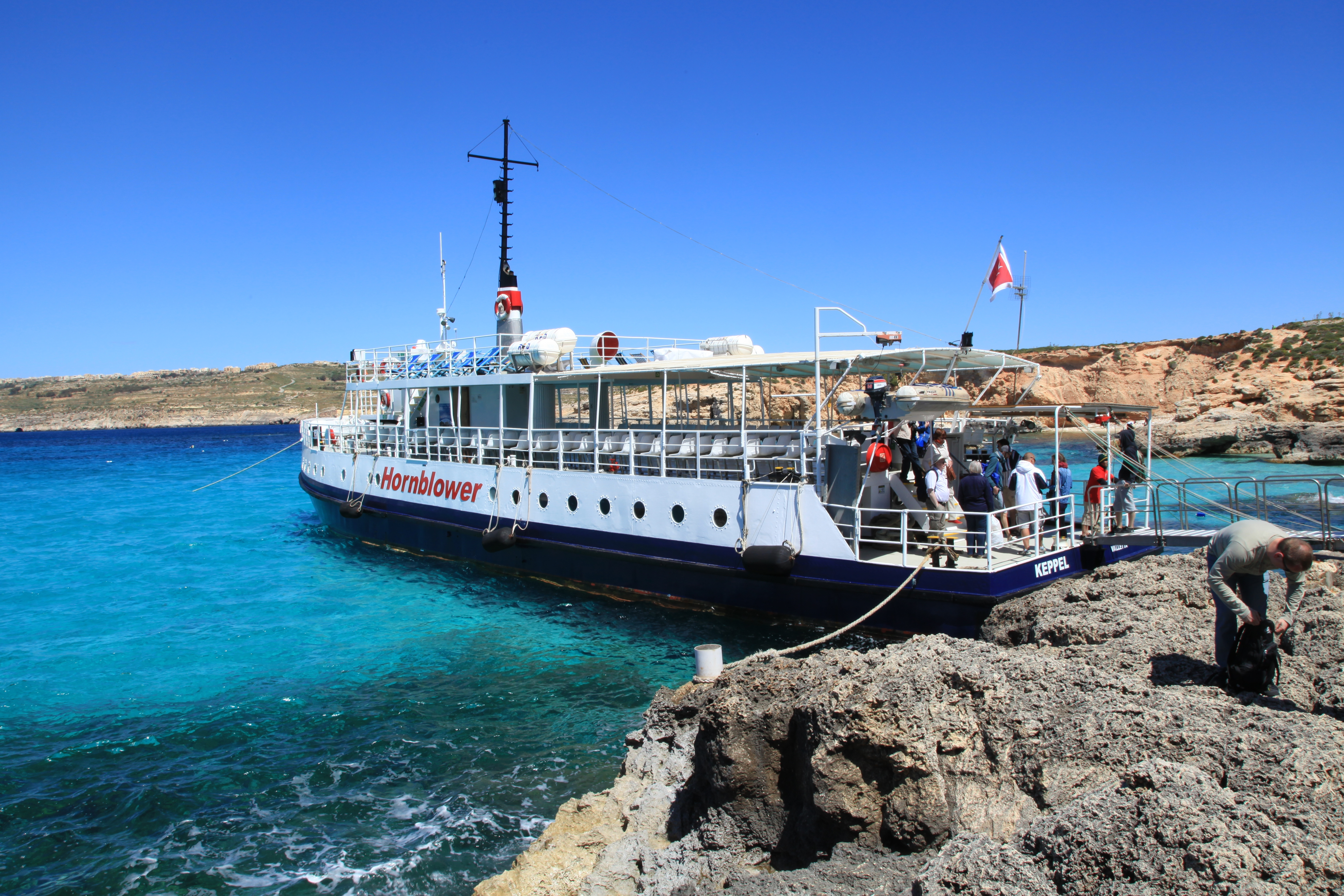 Keppel (IMO 8434415) at the Blue Lagoon Harbour, Comino in Għajnsielem, Malta